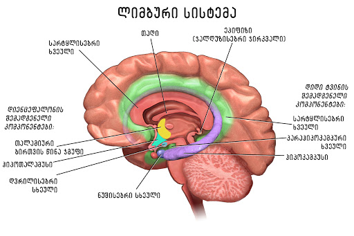 Limbic System. See a full animation of this medical topic.